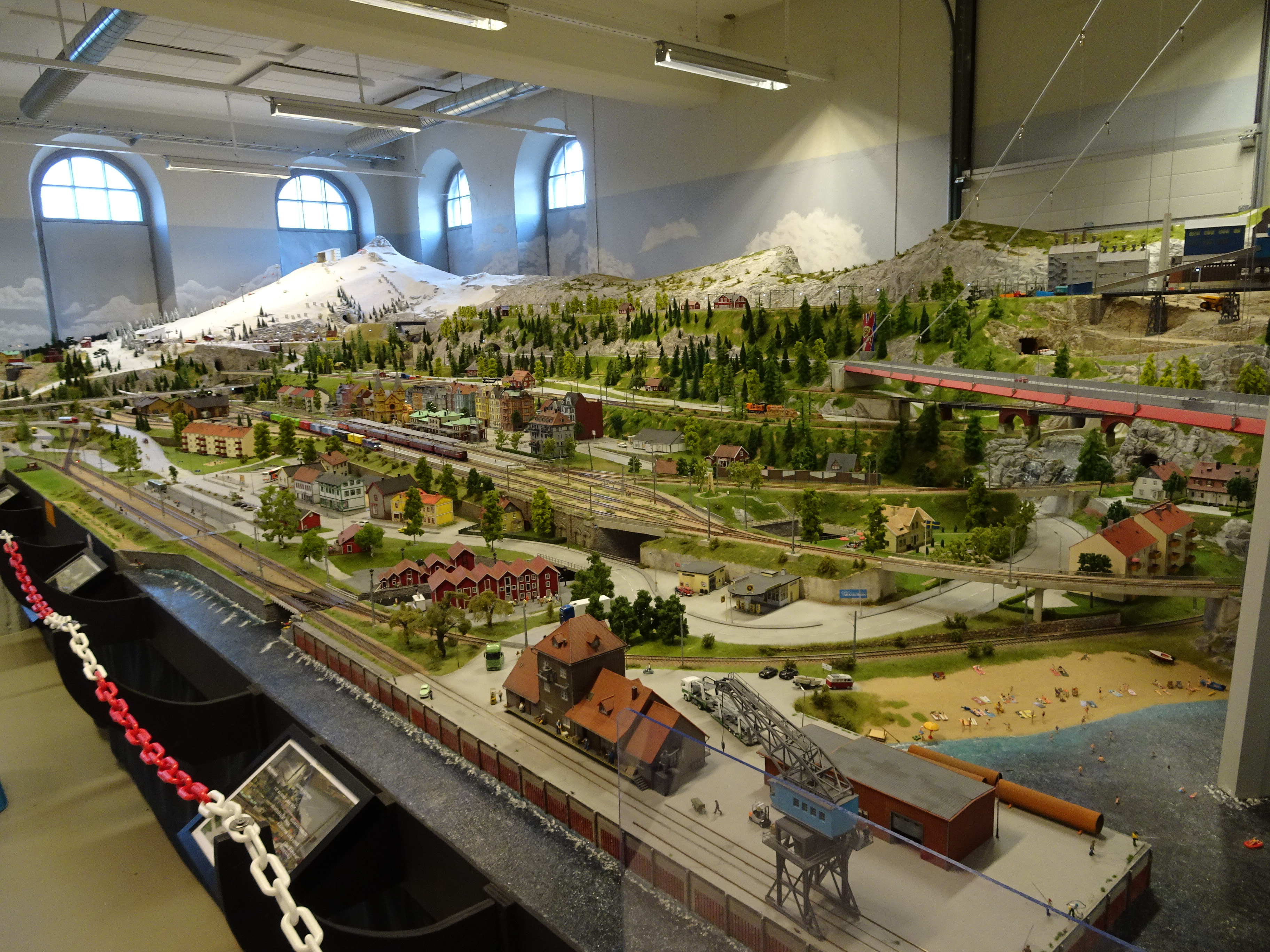 Miniature Kingdom, a model railway with miniature buildings depicting Sweden, located in Kungsör. This part describes Sweden, roughly north of Stockholm.